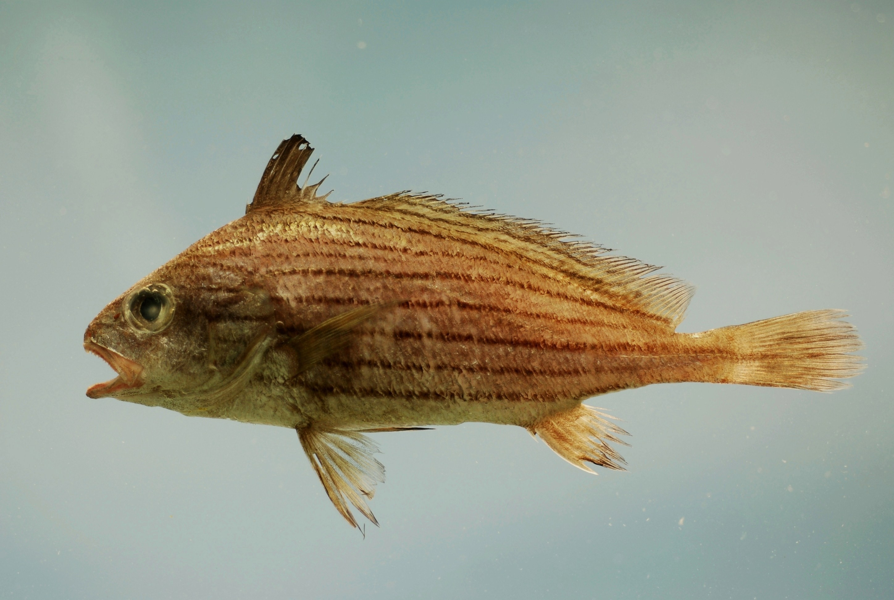 Cubbyu ( Pareques umbrosus ) . Gulf of Mexico.